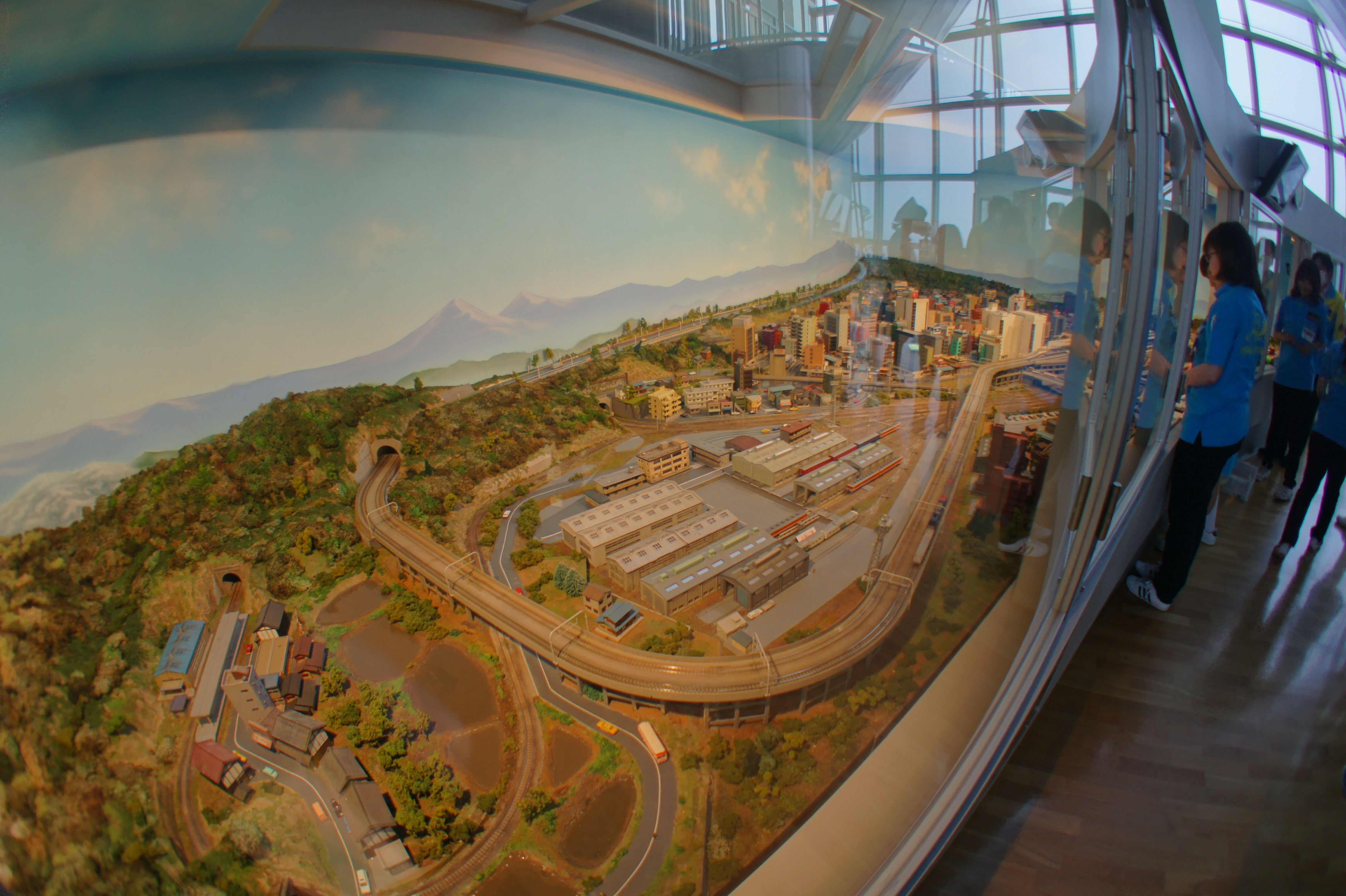 Diorama displayed at the Koriyama City Fureai Science Center